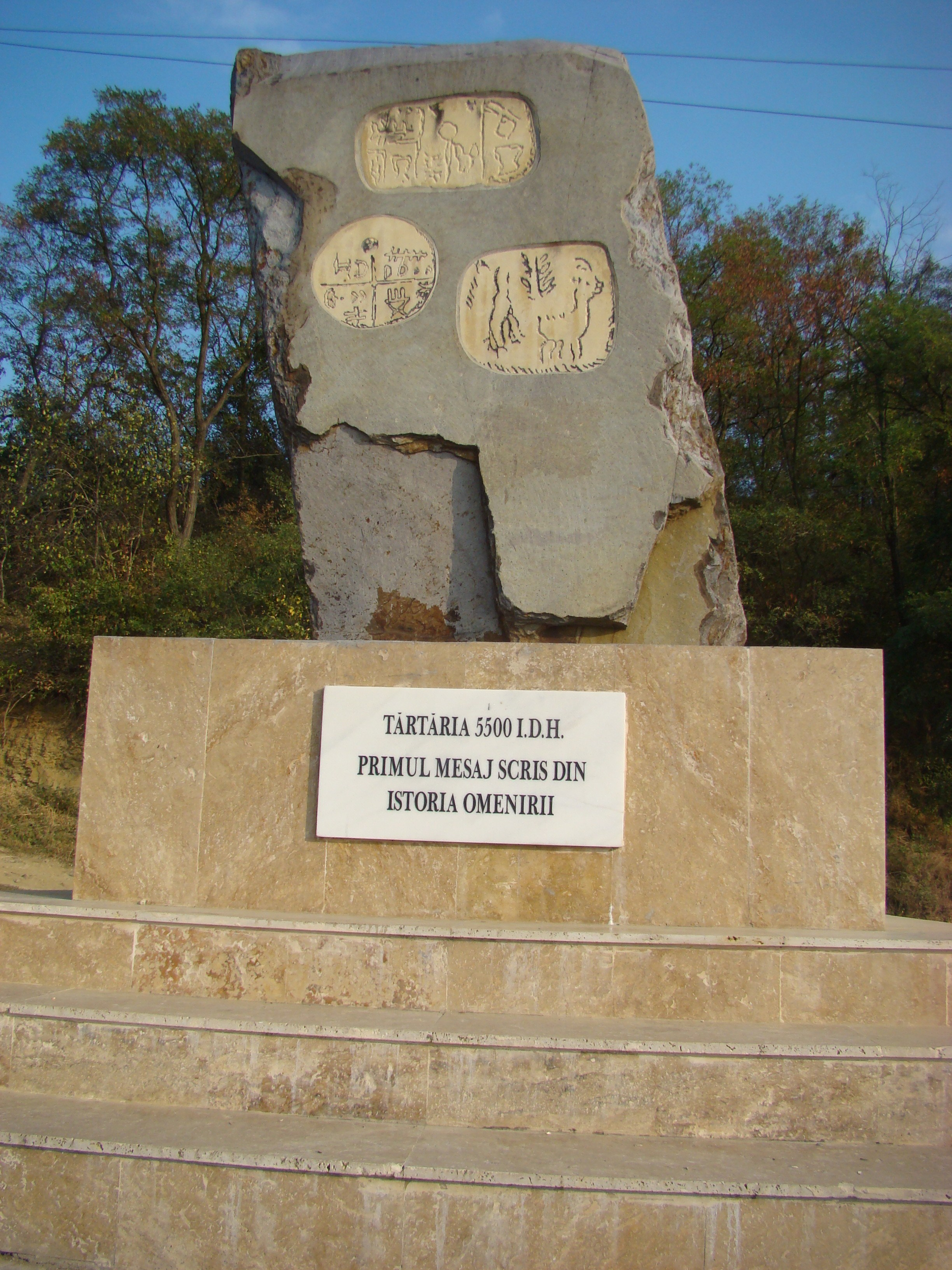 Monument for the Neolithic Tărtăria tablets, dated to 5500-5300 BC and discovered in 1961 at Tărtăria, Alba County, Romania by the archaeologist Nicolae Vlassa. The clay tables are associated with the Turdaş-Vinča culture and the Vinča symbols on them predate the proto-Sumerian pictographic script. The monument has been created near the discovery location.